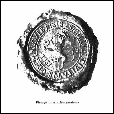 The city seal (of the magistrate) of Grzymalow was kept in the State Archives of Poland in Lviv. Photo before 1936.